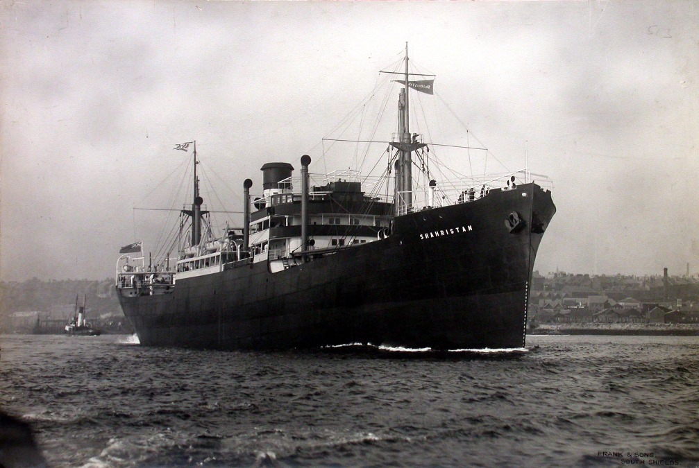 View of the cargo ship ‘Shahristan’ on sea trials, 1938 (TWAM ref. 1061/1029). She was built at the shipyard of John Readhead & Sons Ltd, South Shields. This set celebrates the achievements of the shipyard of John Readhead & Sons. The firm has played a significant role in the North East’s illustrious shipbuilding history and the development of South Shields. The company began in 1865 when John Readhead, a shipyard manager, entered into business with J Softley at a small yard on the Lawe at South Shields. Following the dissolution of the partnership in 1872, it continued as John Readhead & Co on the same site until 1880 when the High West Yard was purchased. After Readhead’s four sons were taken into the business in 1888 the company traded as John Readhead & Sons becoming a limited company in 1908. In 1968 the company was absorbed by the Swan Hunter Group and in 1977 became part of the nationalised British Shipbuilders. In the same year the last vessel was launched and the site was sold off in 1984. Readheads was prolific and built over 600 ships from 1865 to 1968, including 87 vessels for the Hain Steamship Company Ltd and over forty for the Strick Line Ltd. The shipyard also built four ships for the Prince Line, founded by Sir James Knott. The firm built vessels, which were involved in the major conflicts of the Twentieth Century. During the First World War they built patrol vessels and ‘x’ lighters (motor landing craft used in the Gallipoli campaign) for the Admiralty. During the Second World War the firm built tankers for the Normandy Landings. (Copyright) We're happy for you to share this digital image within the spirit of The Commons. Please cite 'Tyne & Wear Archives & Museums' when reusing. Certain restrictions on high quality reproductions and commercial use of the original physical version apply though; if you're unsure please .